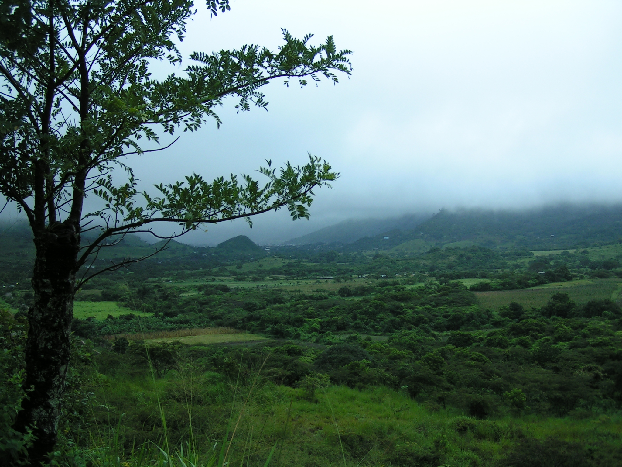 Downtown Jinotega from the new Sebaco-Jinotega highway